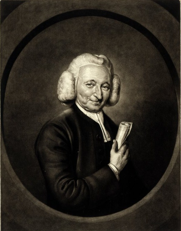 Portrait of Andrew Gifford (1700–1784), English Baptist minister and numismatist.